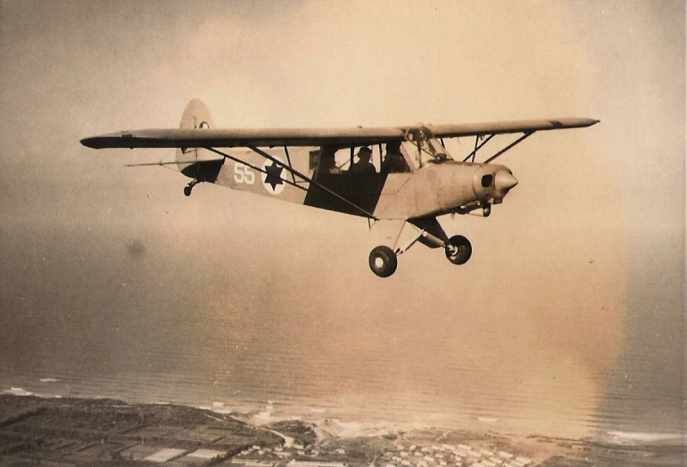 Israeli Air Force flight academy Piper PA-18 Super Cub training aircraft.